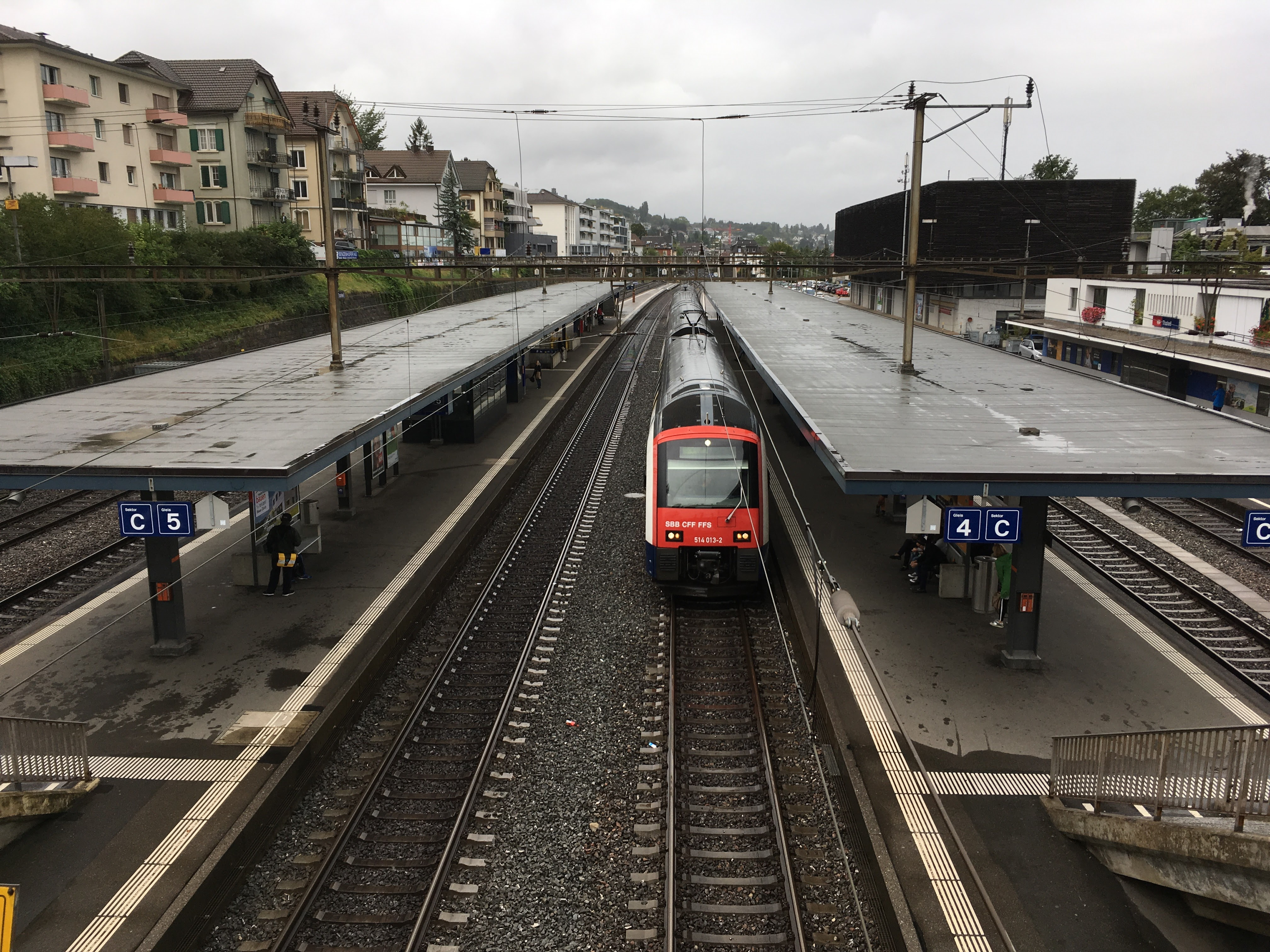 Unit 514 013-2 in Thalwil.